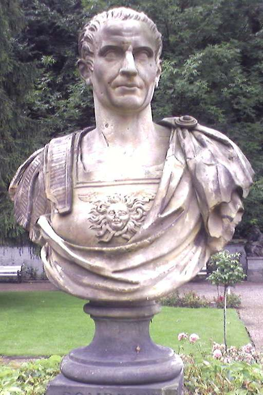 Bust of Pompey, Royal Baths Park, Warsaw.